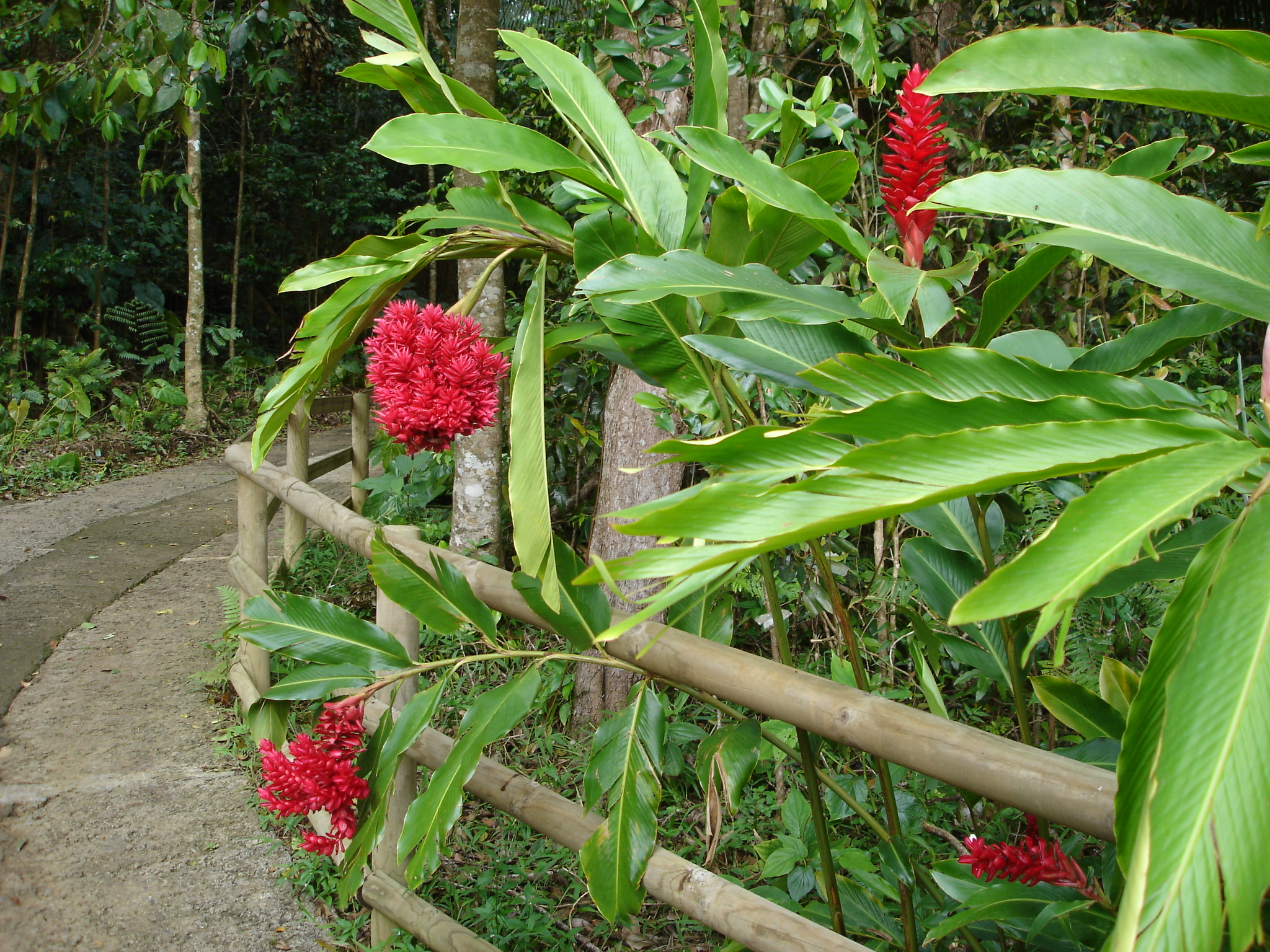 Red Gingers in Guadeloupe